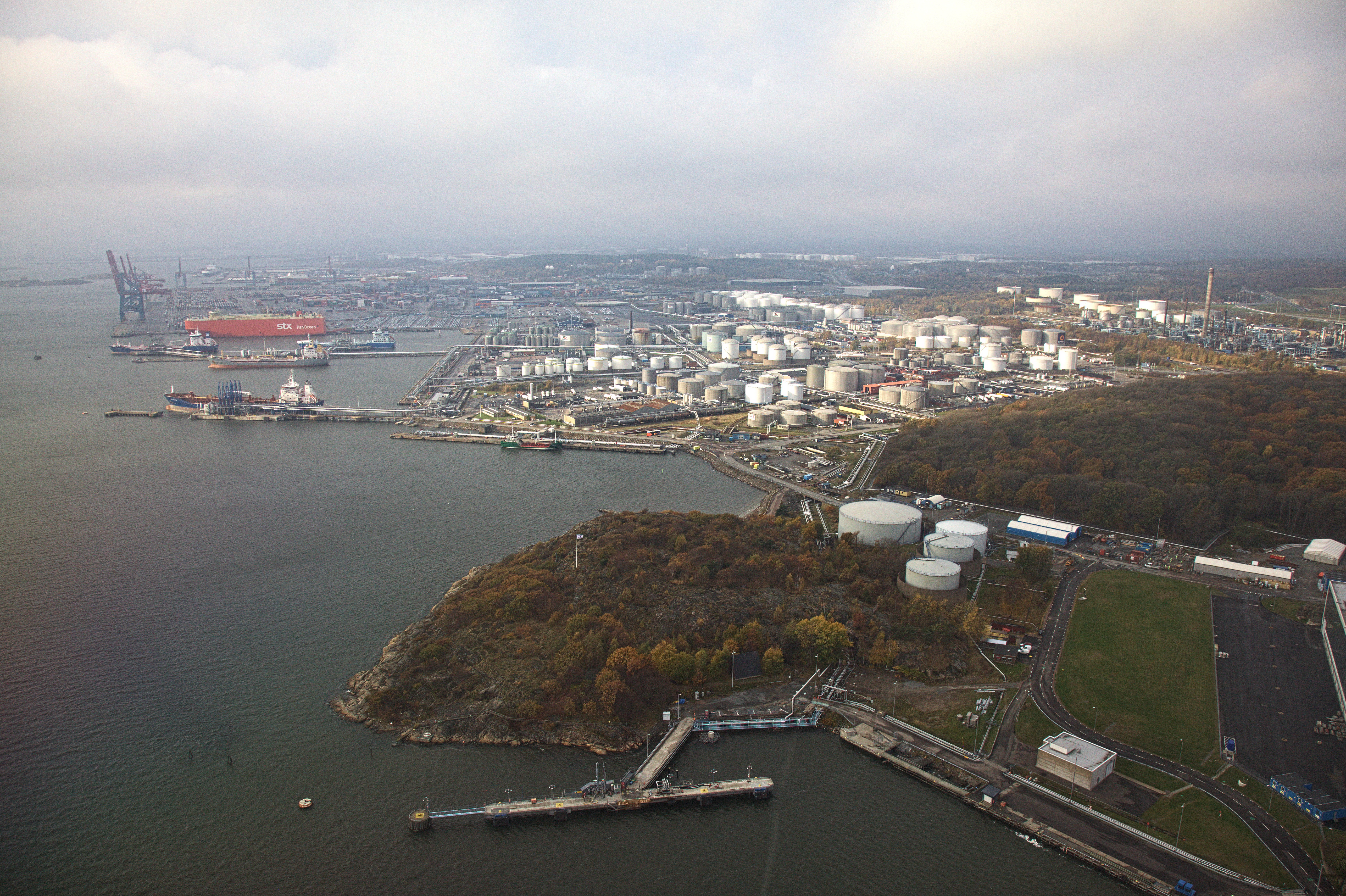 Photo taken on a helicopter over Gothenburg. Rya Nabbe on Hisingen.